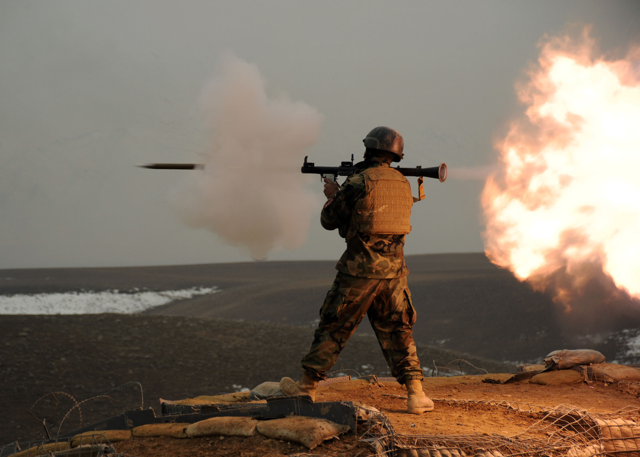 An 8th Commando Kandak soldier fires a rocket-propelled grenade during a live-fire exercise in Tarin Kowt district, Uruzgan province, Afghanistan, Feb. 2. The 8th Commando Kandak partner with coalition special operations forces to conduct operations throughout Uruzgan and Zabul provinces. Combined Joint Special Operations Task Force – Afghanistan Media Operations Center Photo by Petty Officer 2nd Class Jacob Dillon Date Taken:02.02.2012 Location:TARIN KOWT DISTRICT, AF Related Photos